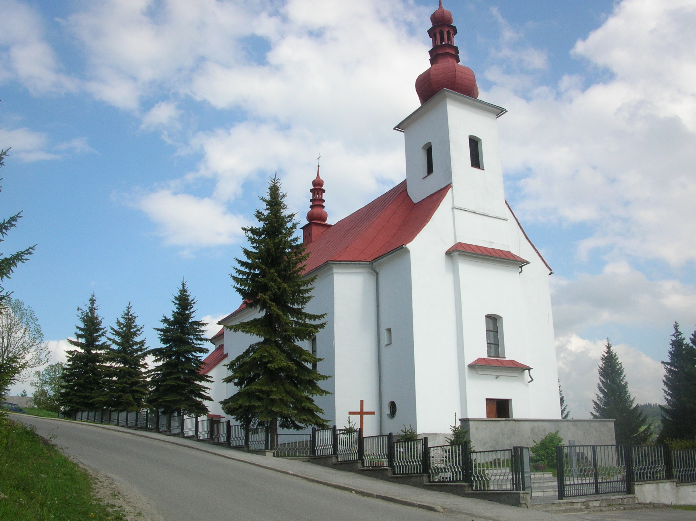 This foto disply Church in Rabčice